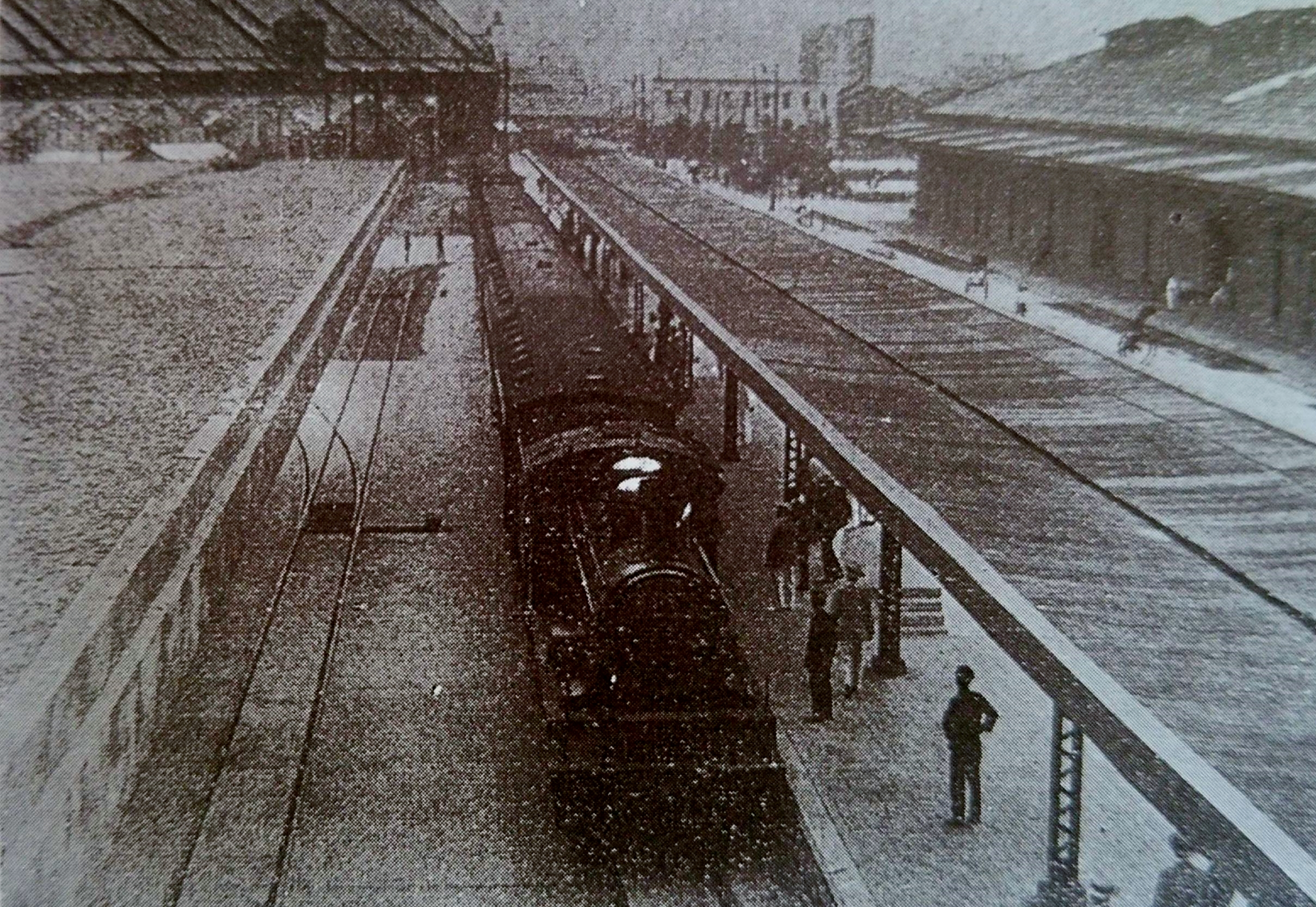 Yokohama Port Station (adjacent to the present-day Yokohama Red Brick Warehouse)